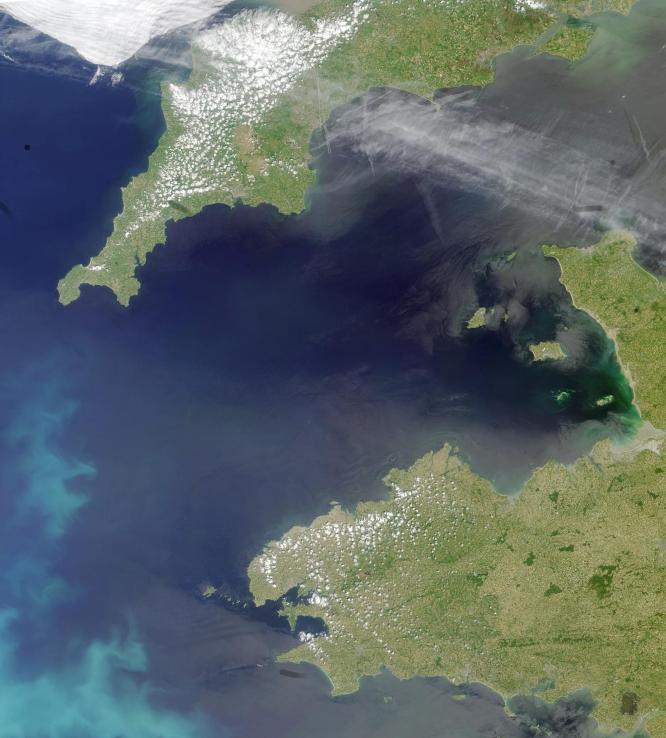 Coccoliths in the Celtic Sea :Coccolithophores, however, are a group of phytoplankton that are identifiable from space. These microscopic plants armor themselves with external plates of calcium carbonate. The plates, or coccoliths, give the ocean a milky white or turquoise appearance during intense blooms. The long-term flux of coccoliths to the ocean floor is the main process responsible for the formation of chalk and limestone. :This image is a natural-color view of the Celtic Sea and English Channel regions, and was acquired by the Multi-angle Imaging SpectroRadiometer's nadir (vertical-viewing) camera on June 4, 2001 during Terra orbit 7778. It represents an area of 380 kilometers x 445 kilometers, and includes portions of southwestern England and northwestern France. The coccolithophore bloom in the lower left-hand corner usually occurs in the Celtic Sea for several weeks in summer. The coccoliths backscatter light from the water column to create a bright optical effect. Other algal and/or phytoplankton blooms can also be discerned along the coasts near Portsmouth, England and Granville, France.